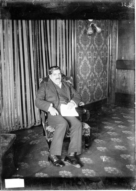 Full-length portrait of Sayajirao Gaekwad III, Maharaja Gaekwad of Baroda, sitting in a room in Chicago, Illinois.